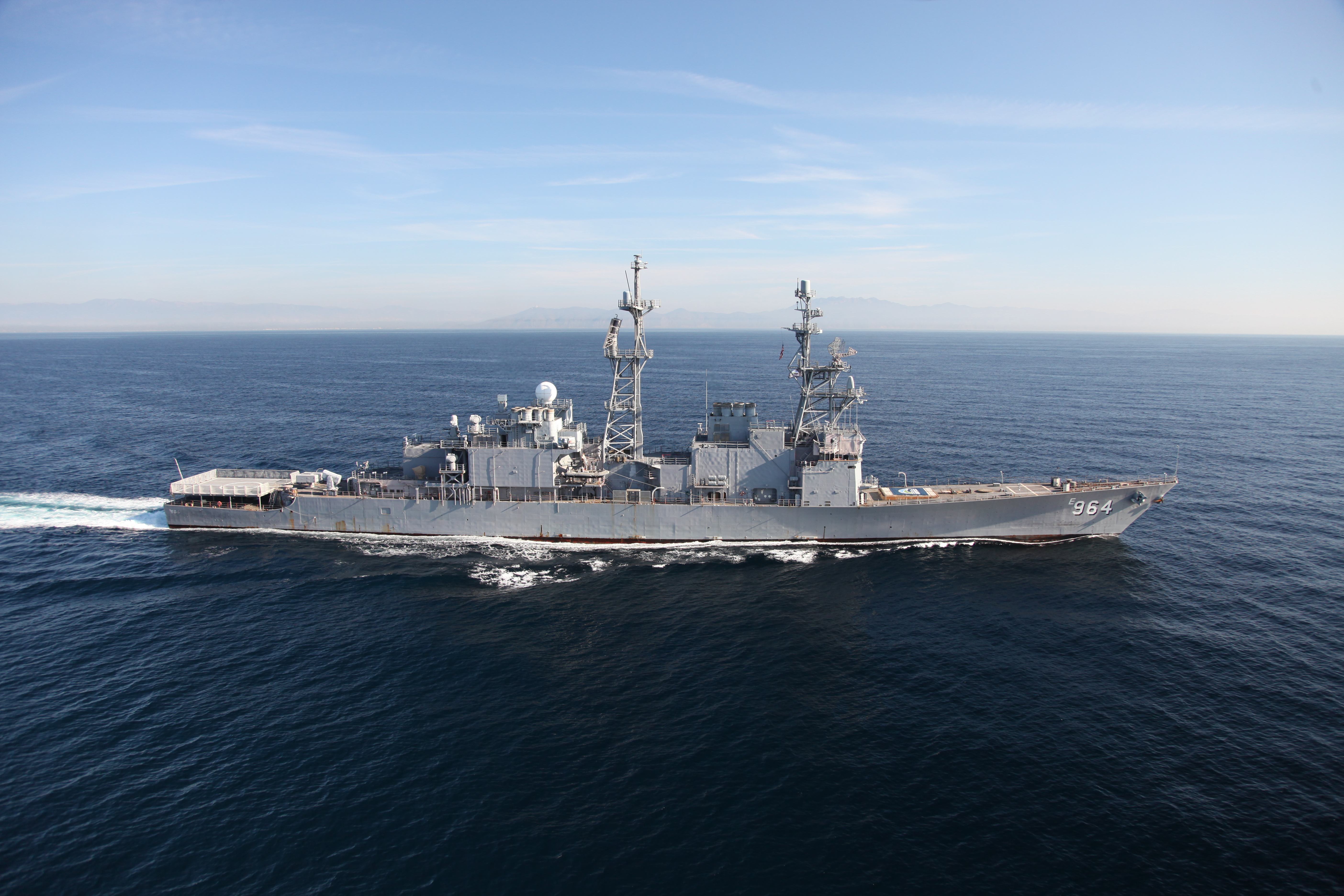 PACIFIC OCEAN (Nov. 17, 2011) The decommissioned Spruance-class destroyer ex-Paul F. Foster (EDD 964) conducts a successful demonstration of shipboard alternative fuel use while underway in the Pacific Ocean on a 50-50 blend of an algae-derived, hydro-processed algal oil and petroleum F-76. Paul F. Foster has been reconfigured as the Self-Defense Test Ship to provide the Navy an at-sea, remotely controlled, engineering test and evaluation platform without the risk to personnel or operational assets. (U.S. Navy photo by Charlie Houser/Released)